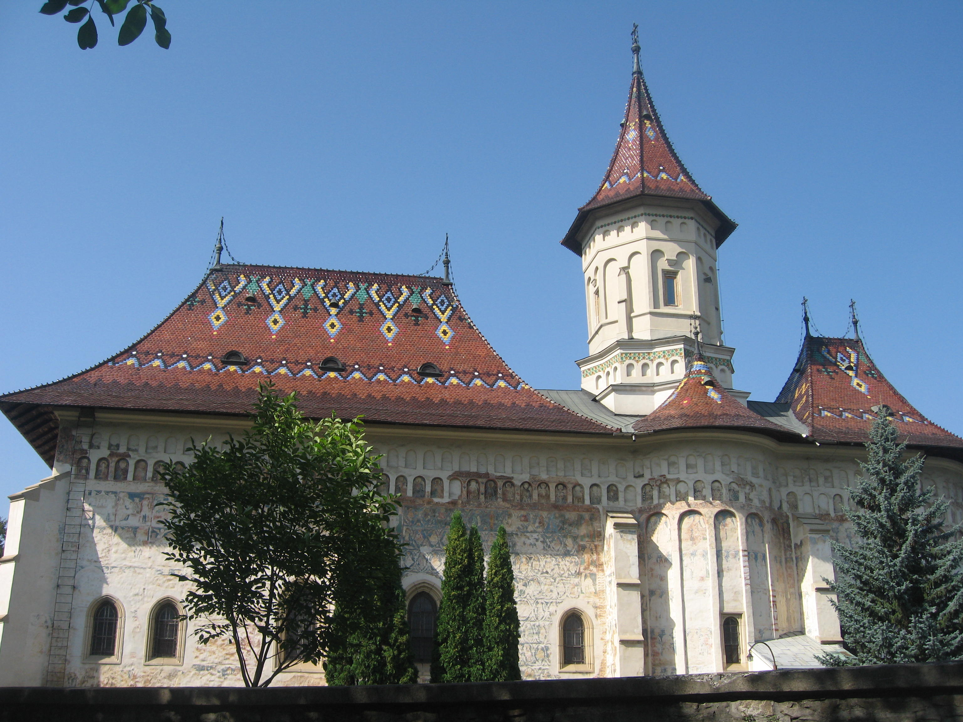 St. John the New Monastery in Suceava - St. George Church.